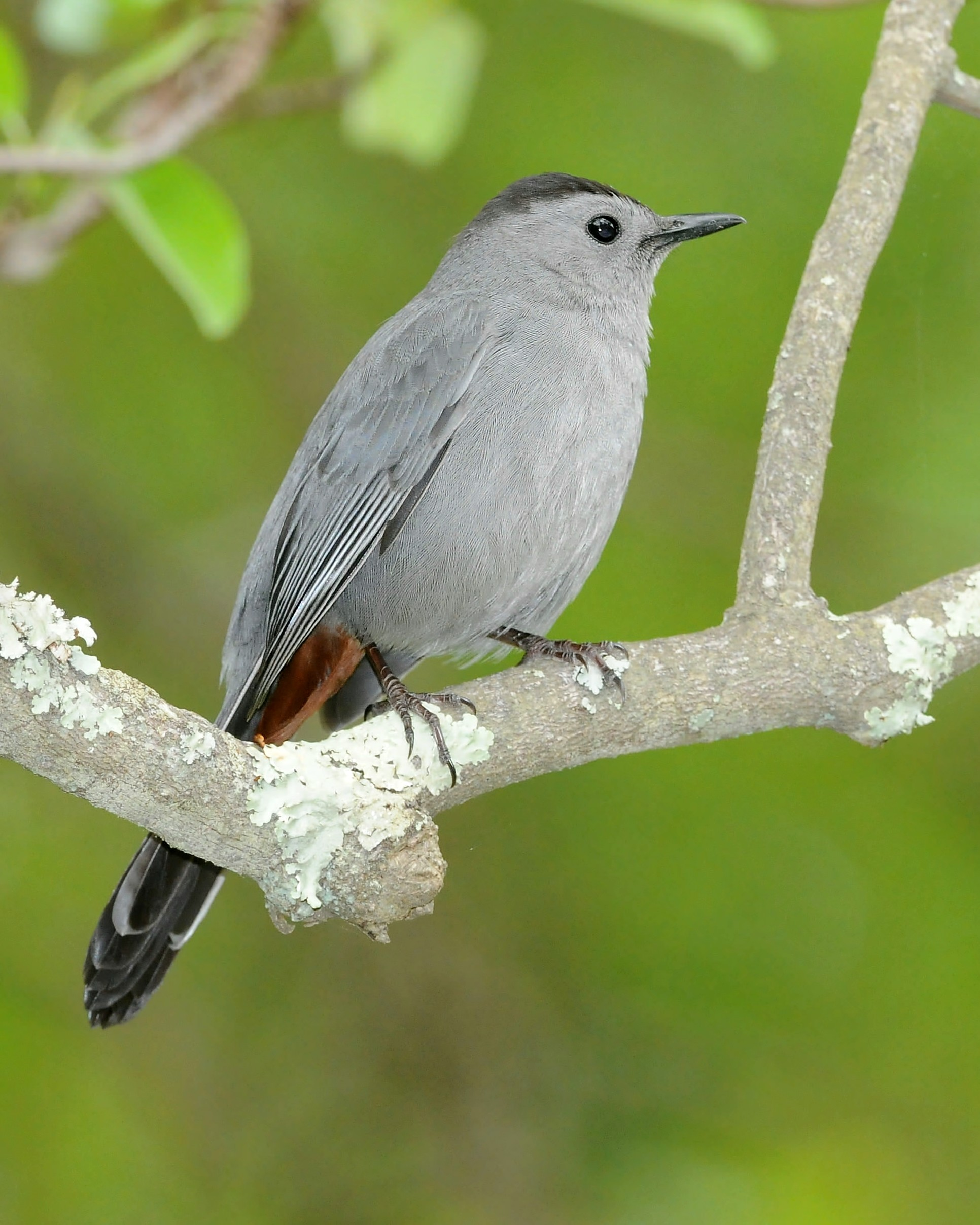 A Gray Catbird at Brendan T. Byrne State Forest, New Jersey, USA.